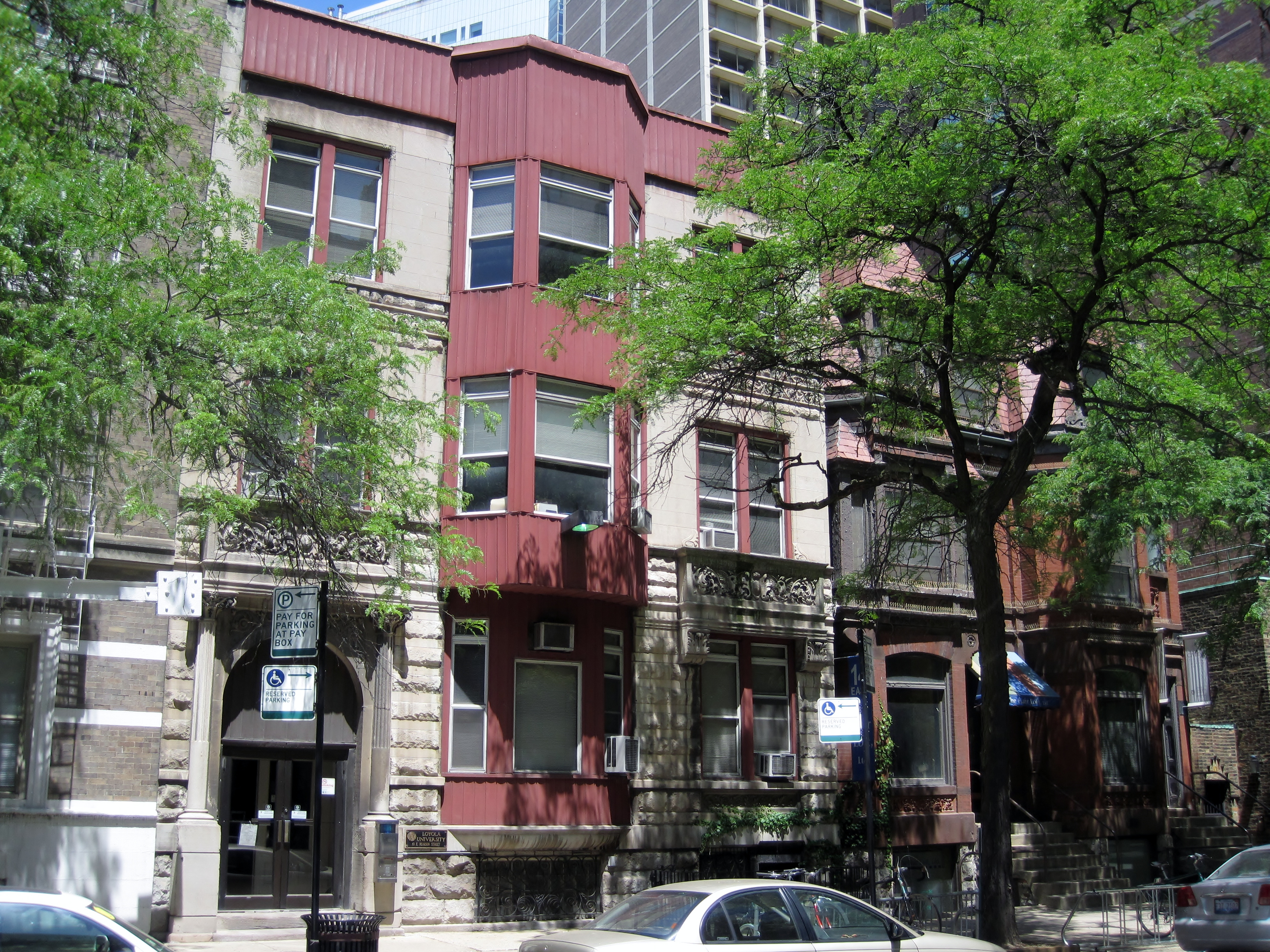 The Building at 16-16 Pearson Street in Chicago (1885). It was built in 1885 for Edwin S. Hatwell, a lumber salesman who wanted to expand into real estate speculation.